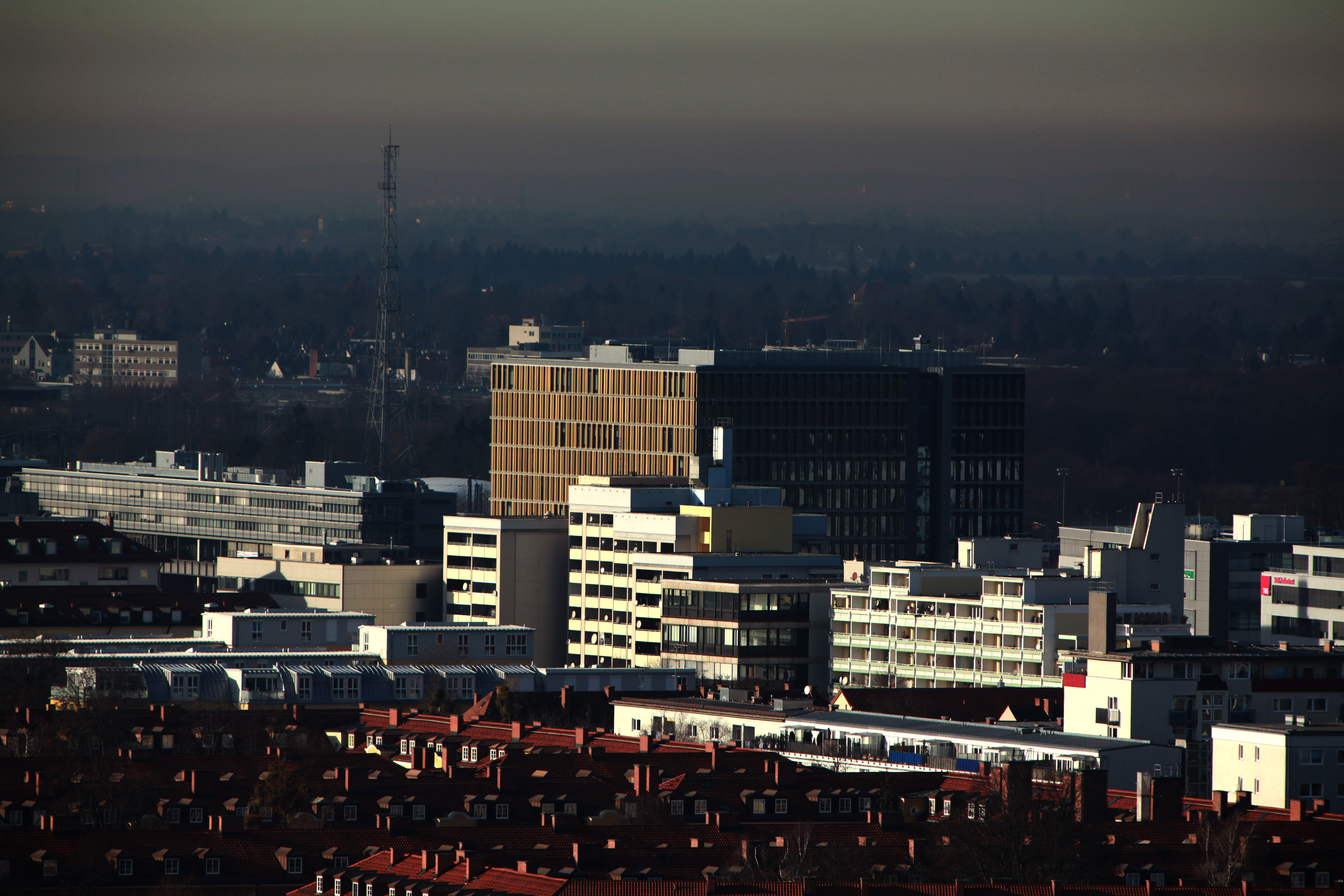 Cube of Laim